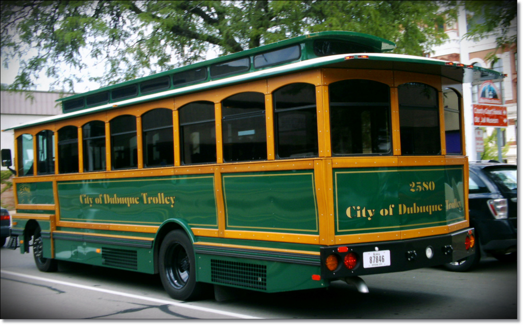 Jule Transit Trolley in Dubuque, Iowa, United States.